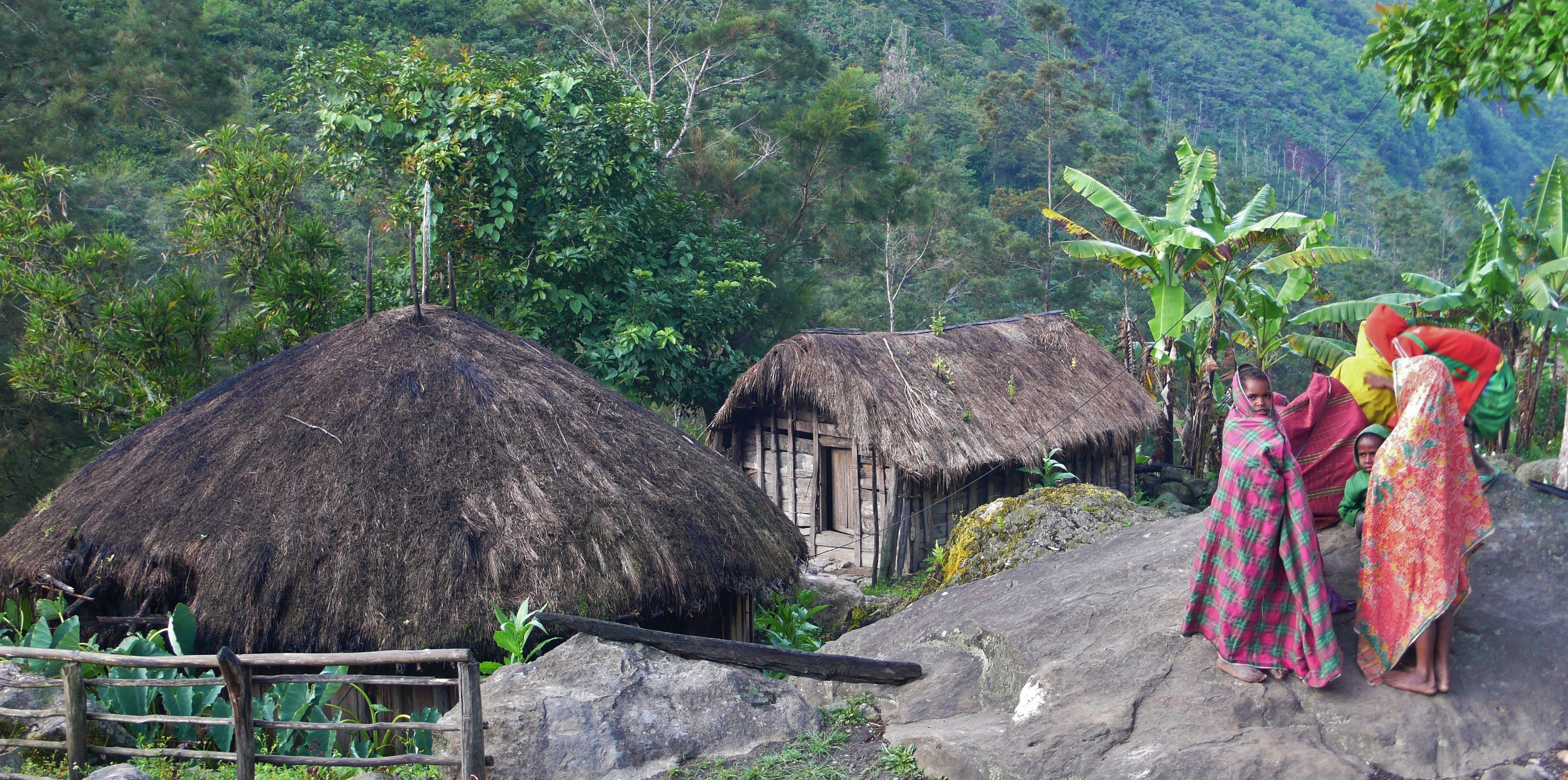 Traditional Papua village in the Baliem valley in Papua